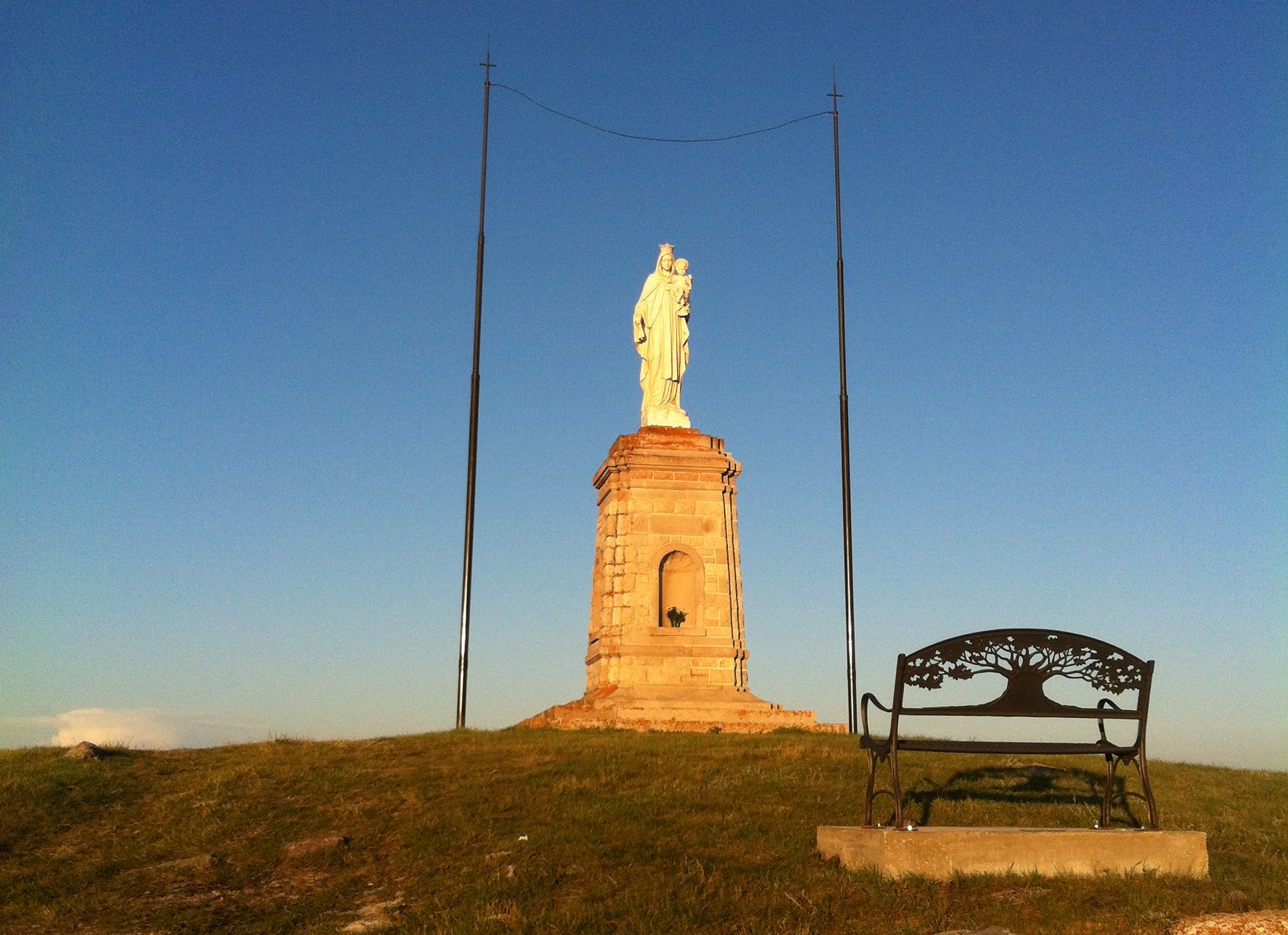 Statue and seating bench found at the top of the hill named Mt. Carmel. It can be found 3 kilometers north of Carmel, Saskatchewan.